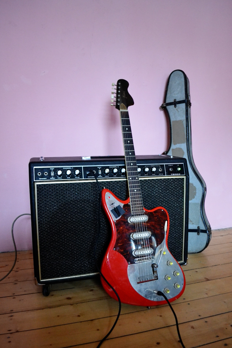 Teisco & Framus Teisco Professional (1968) vacuum tube guitar amplifier Framus Strato de Luxe (1960s) solid-body electric guitar with vibrato tailpiece